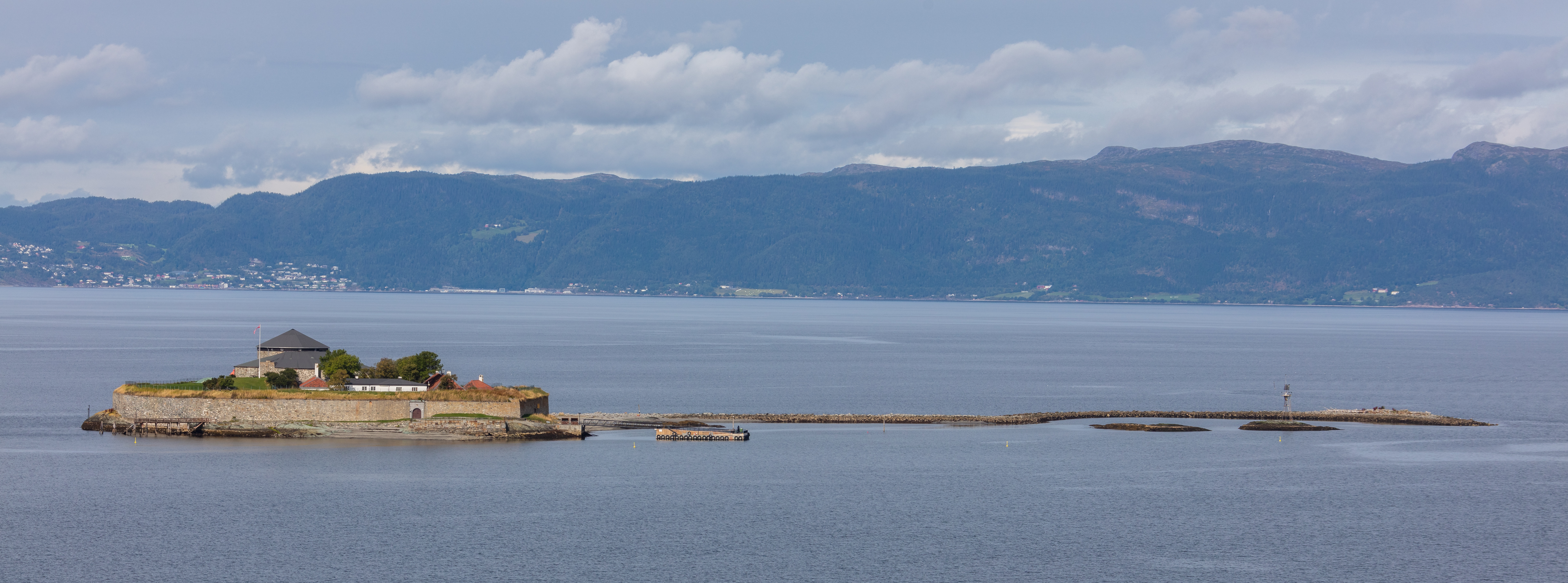 Munkholmen Isle, Trondheim, Norway